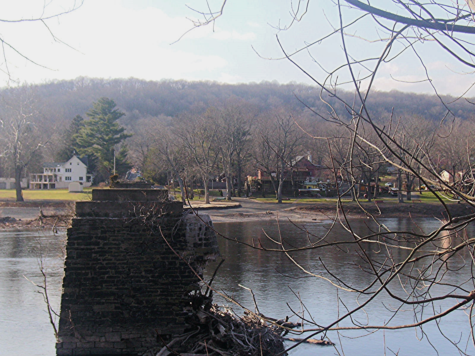 Point Pleasant–Byram Bridge pier that stands in the Delaware River.